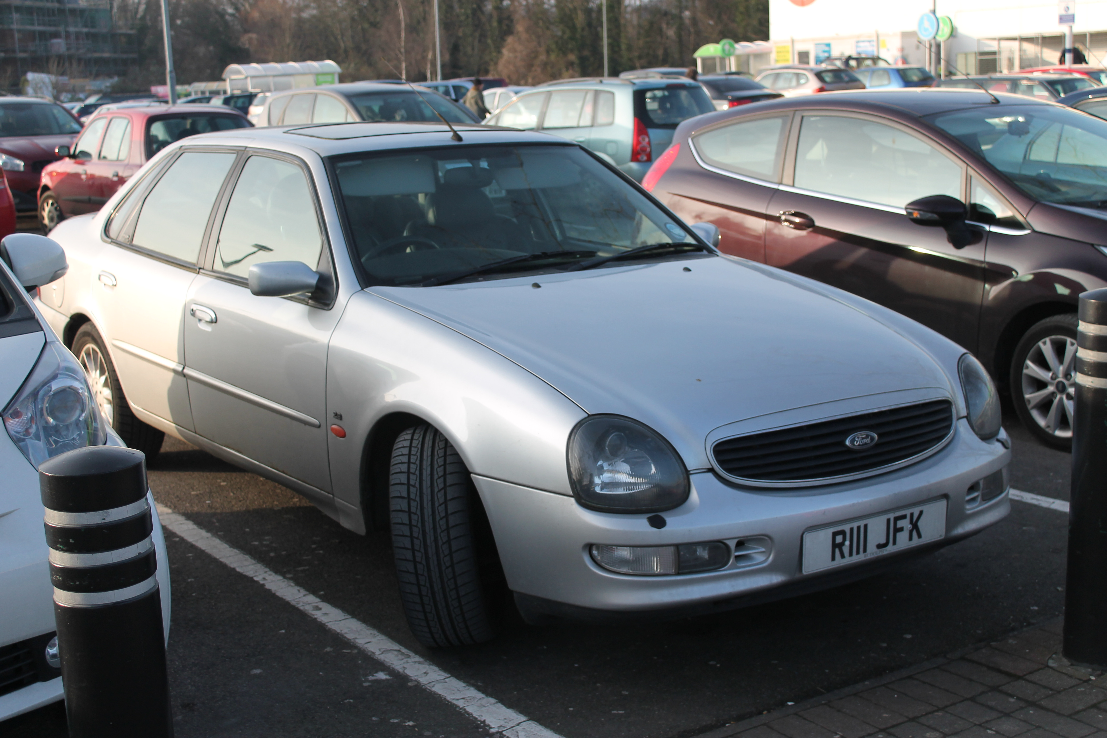 Not an awful lot of these controversial Scorpios left now, and this facelifted one seems to be rarer even than the Mk1s. I'm personally ambivalent. Not awful looking, but not beautiful either. Very American looking, not always a bad thing. This one wears a plate which is probably worth a fair amount to the right person, being connected with John F. Kennedy... Registration number: R111 JFK ✔ Taxed Tax due: 01 April 2015 ✔ MOT Expires: 18 October 2015